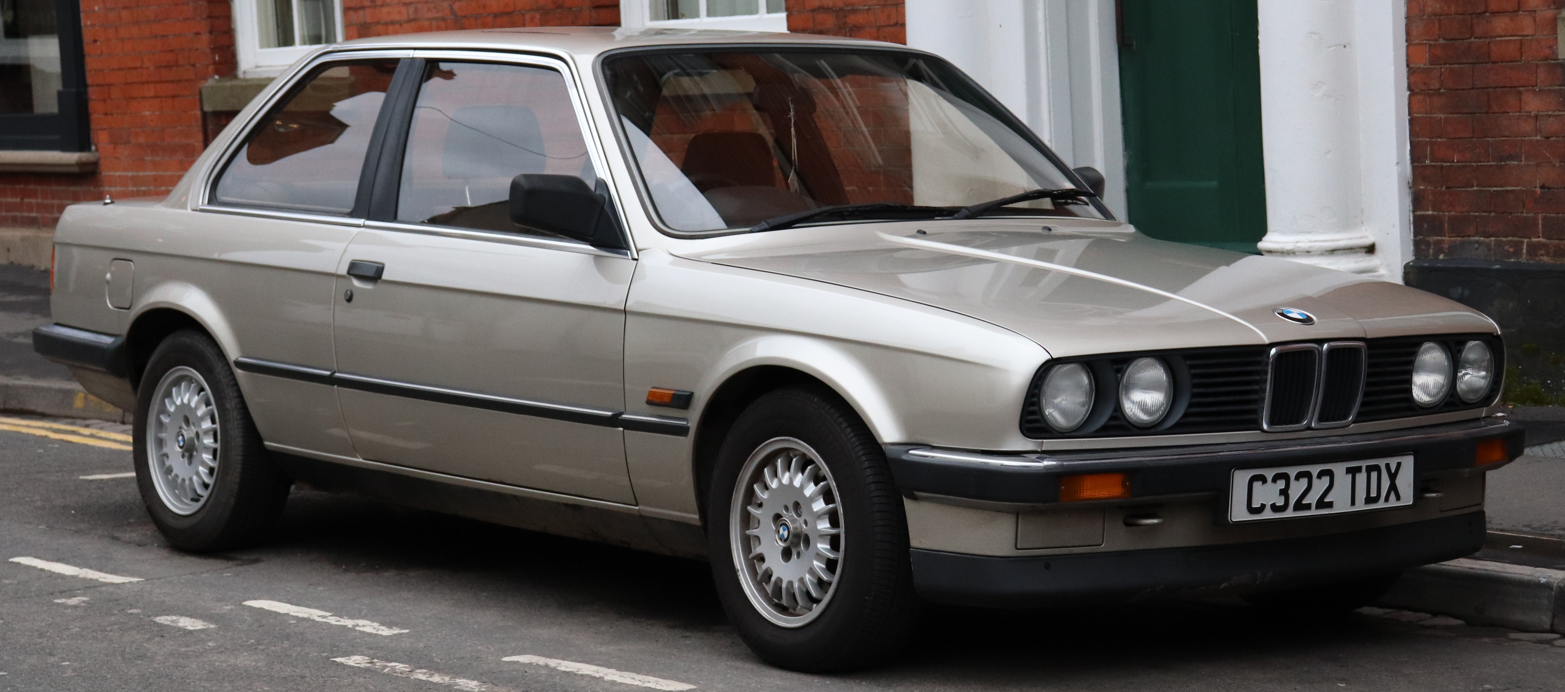 1986 BMW 316 1.8 Front Taken in Warwick